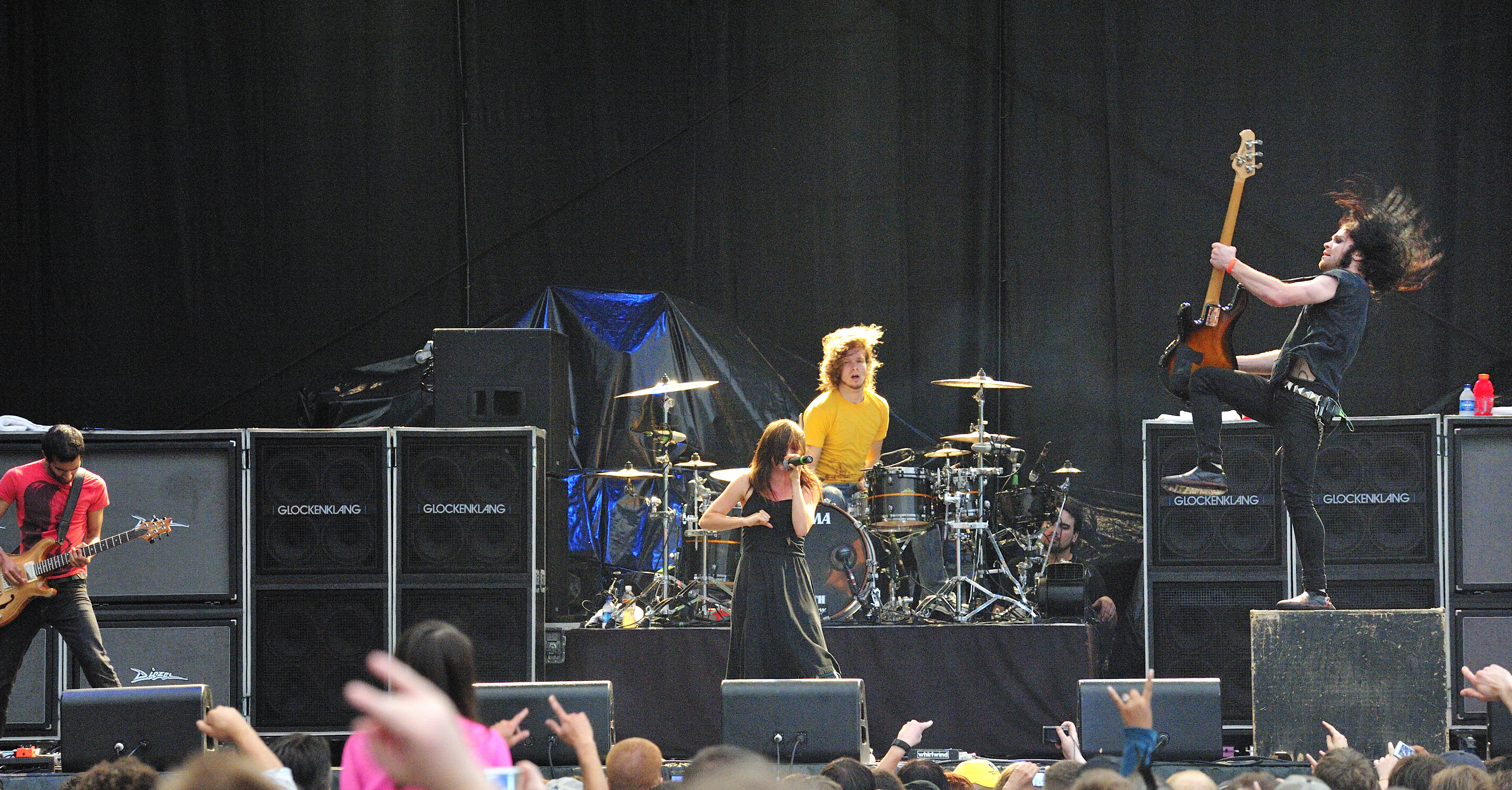 Flyleaf performing on the South Stage of the Beale Street Music Festival on May 2, 2008.